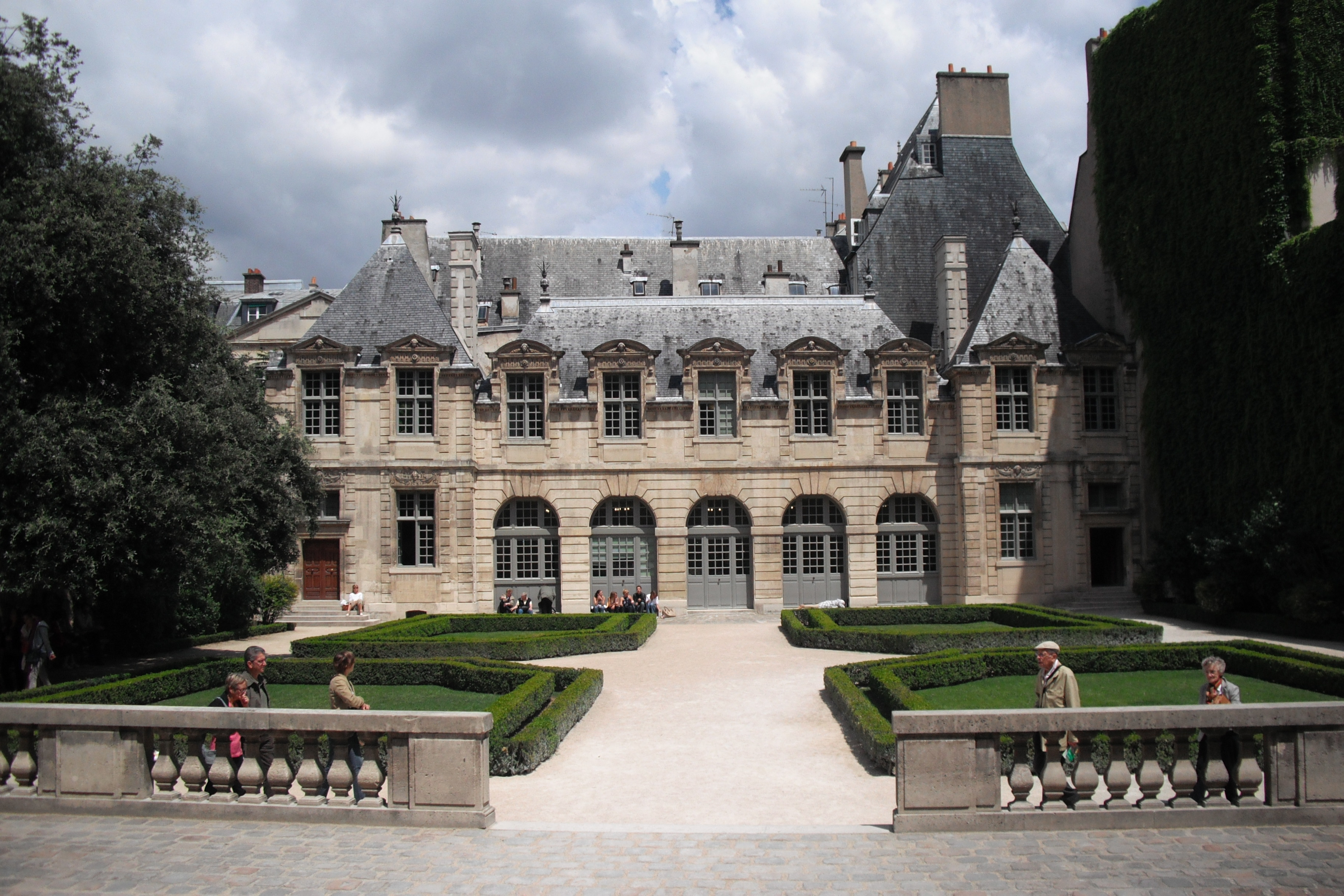 Hôtel de Sully.